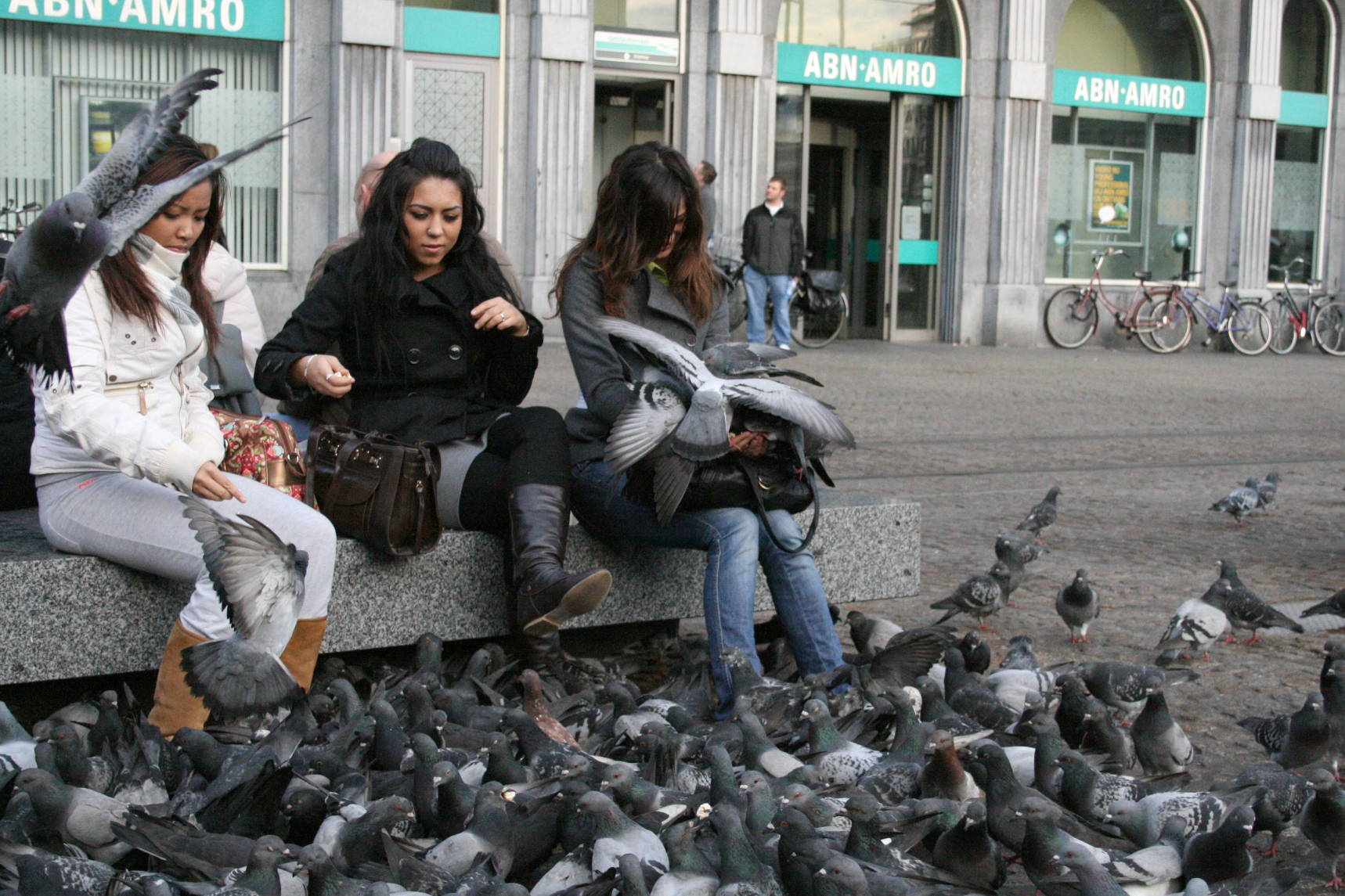 Women feeding pigeons in Dam Square in Amsterdam.